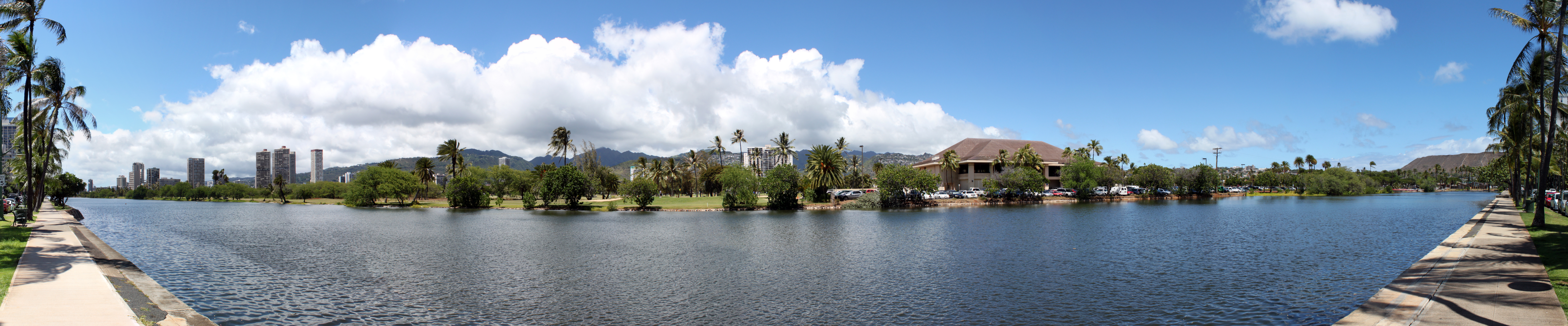 A panorama photo taken on the curbside of Ala wai Boulevard, depicting Ala Wai Canal.